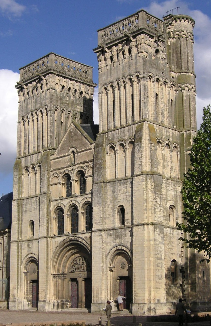 France, Caen, Trinite Church, formerly l'Abbaye aux Dames